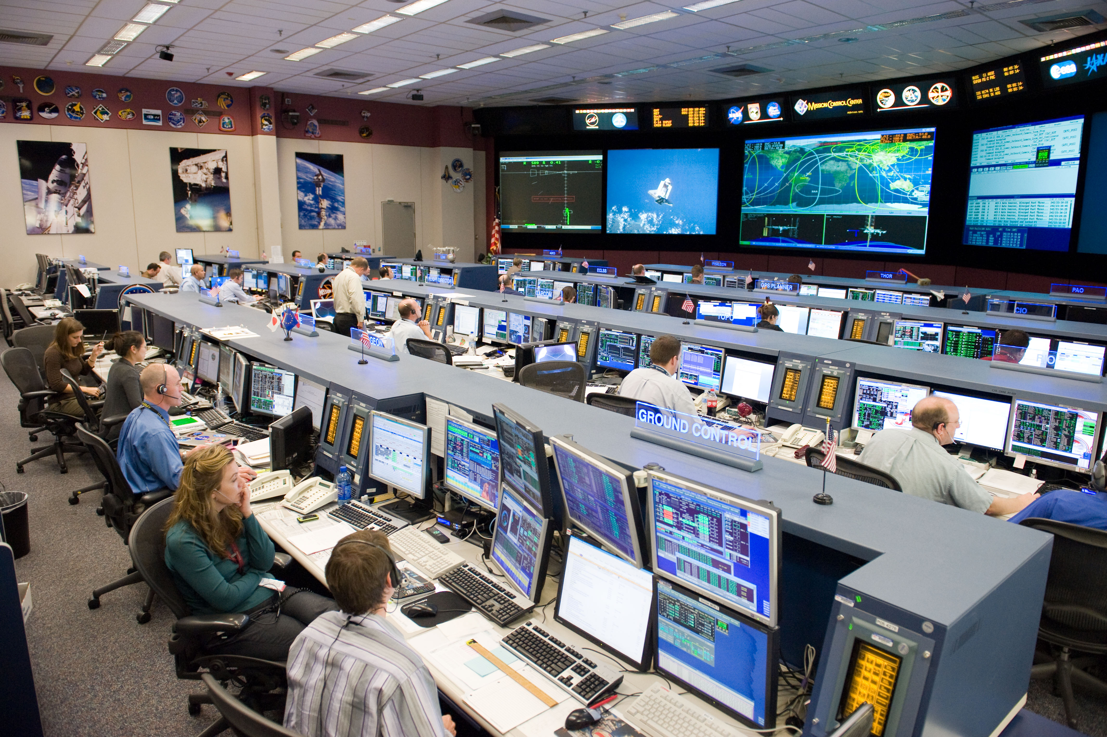 An overall view of the space station flight control room in the Mission Control Center at NASA's Johnson Space Center as flight controllers support the rendezvous and docking of Space Shuttle Discovery (STS-128) with the International Space Station.